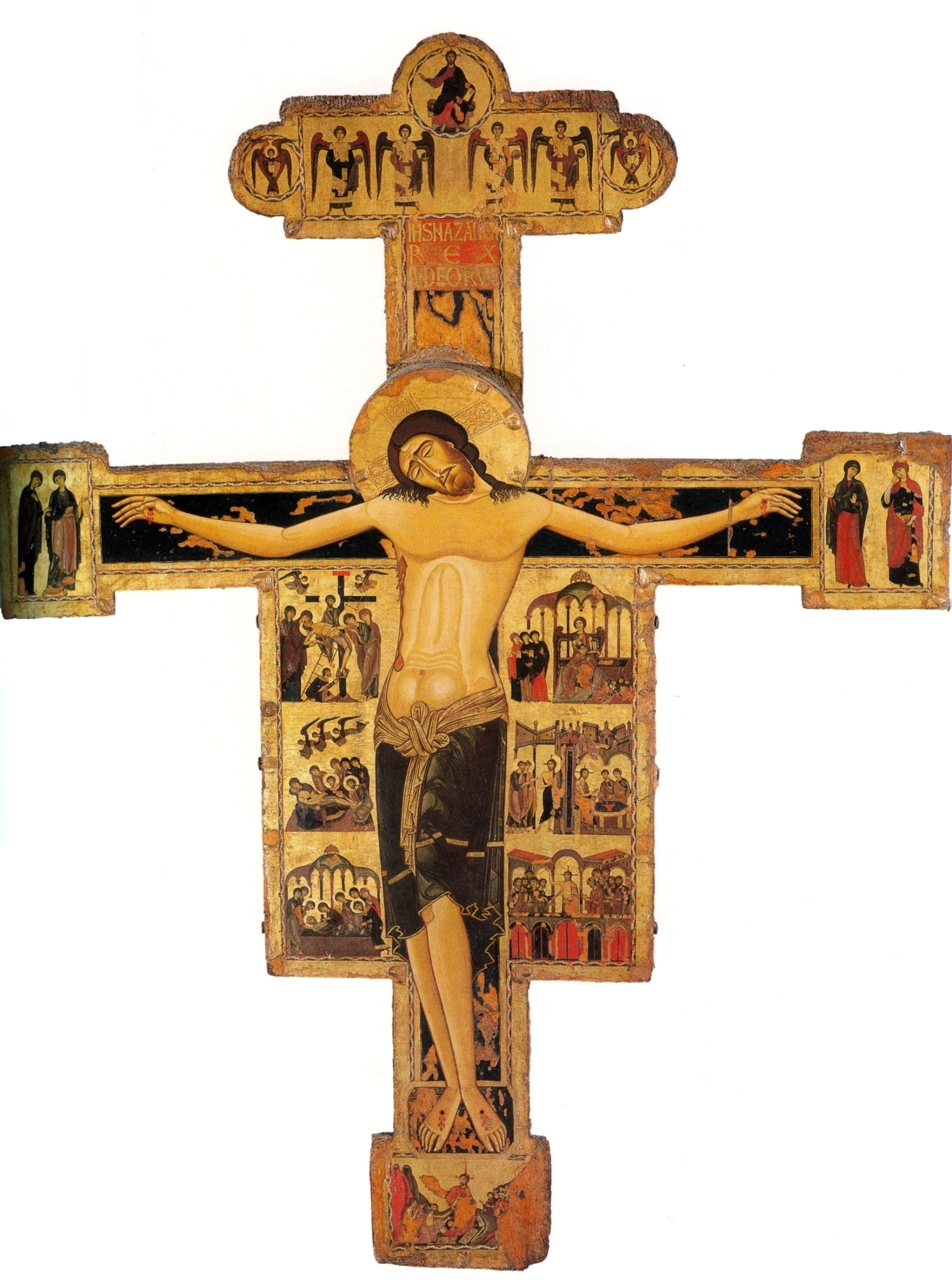 Painted cross. 1200–1210, 298 × 233 cm, detail. Pisa, National Museum of San Matteo.